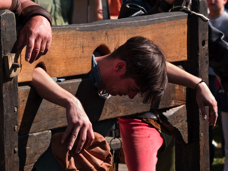 Mediaeval punishment: pillory